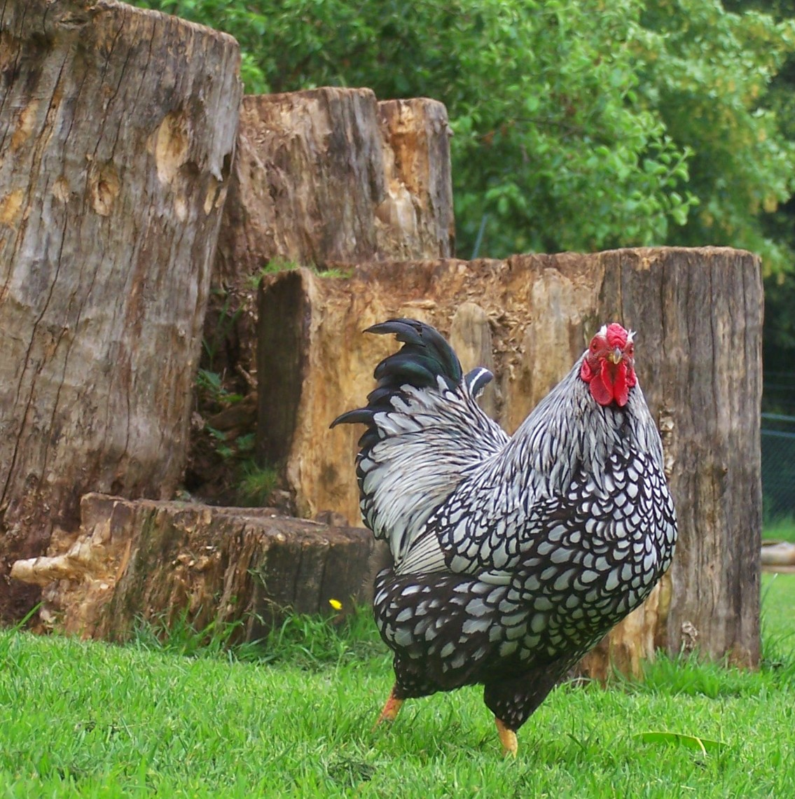 A Silver-laced Wyandotte rooster.